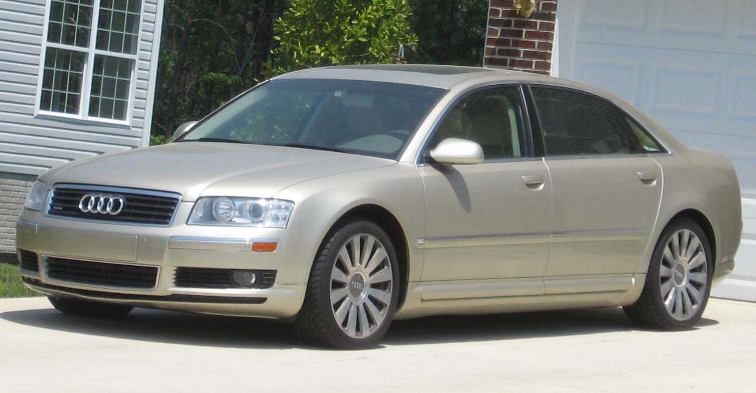 2004-2005 Audi A8L photographed in USA.